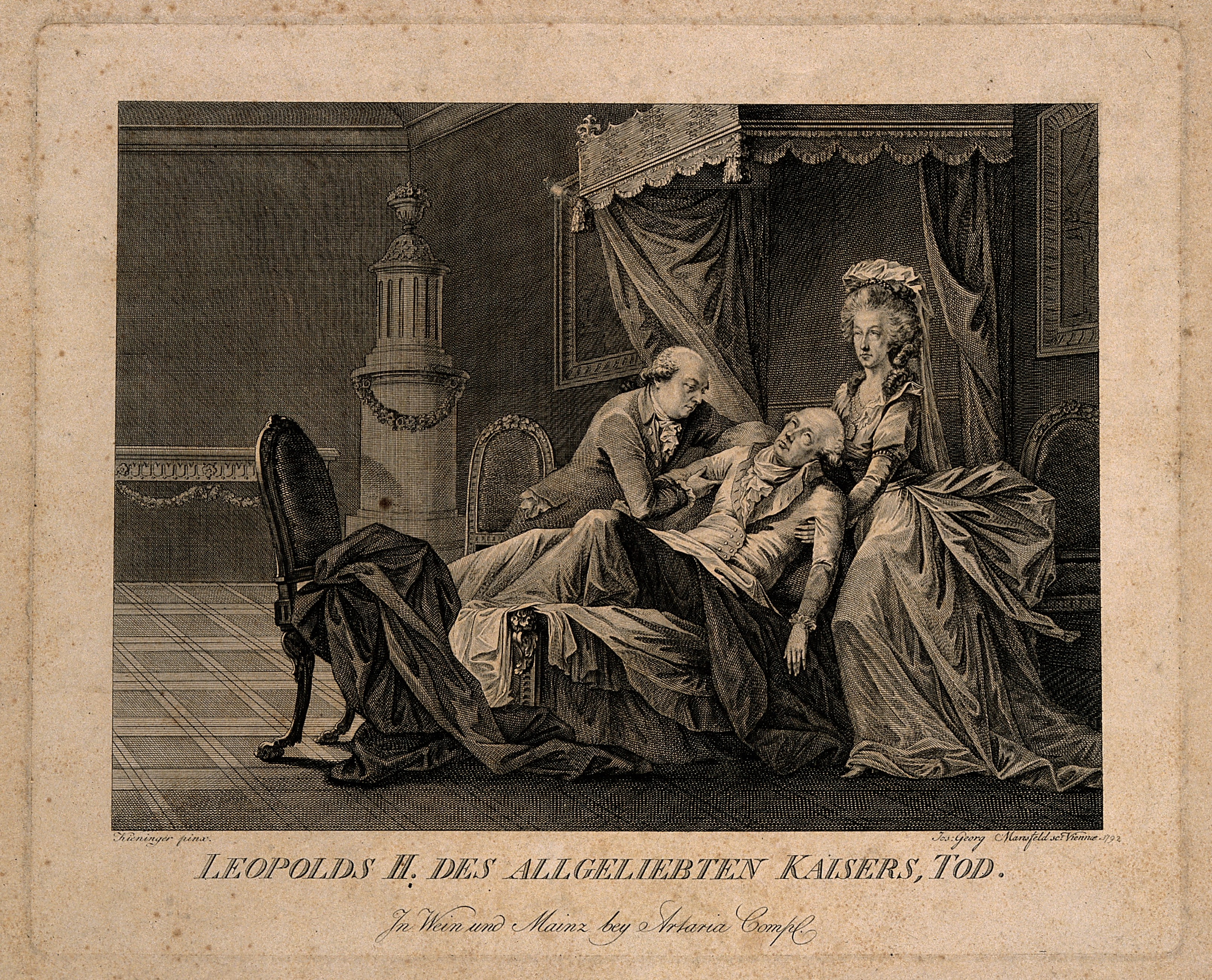 The death of Kaiser Leopold, his wife and a physician in attendance. Engraving by J.G. Mansfeld, 1792, after Kieninger. Iconographic Collections Keywords: Joseph Georg Mansfeld; Kieninger; Leopold